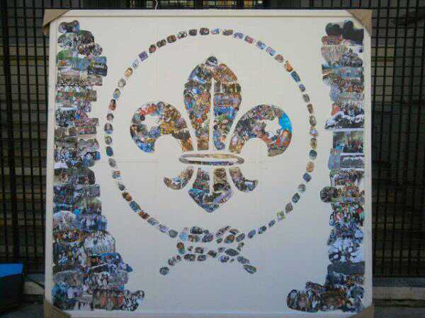 Centenario Scout Murcia